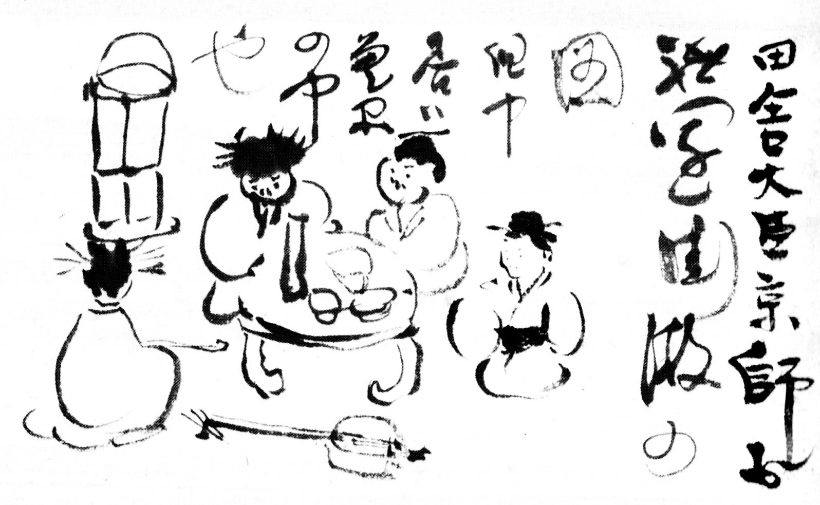 Sketsch by Kido Takayoshi, depictim him as "Minster from the countryside